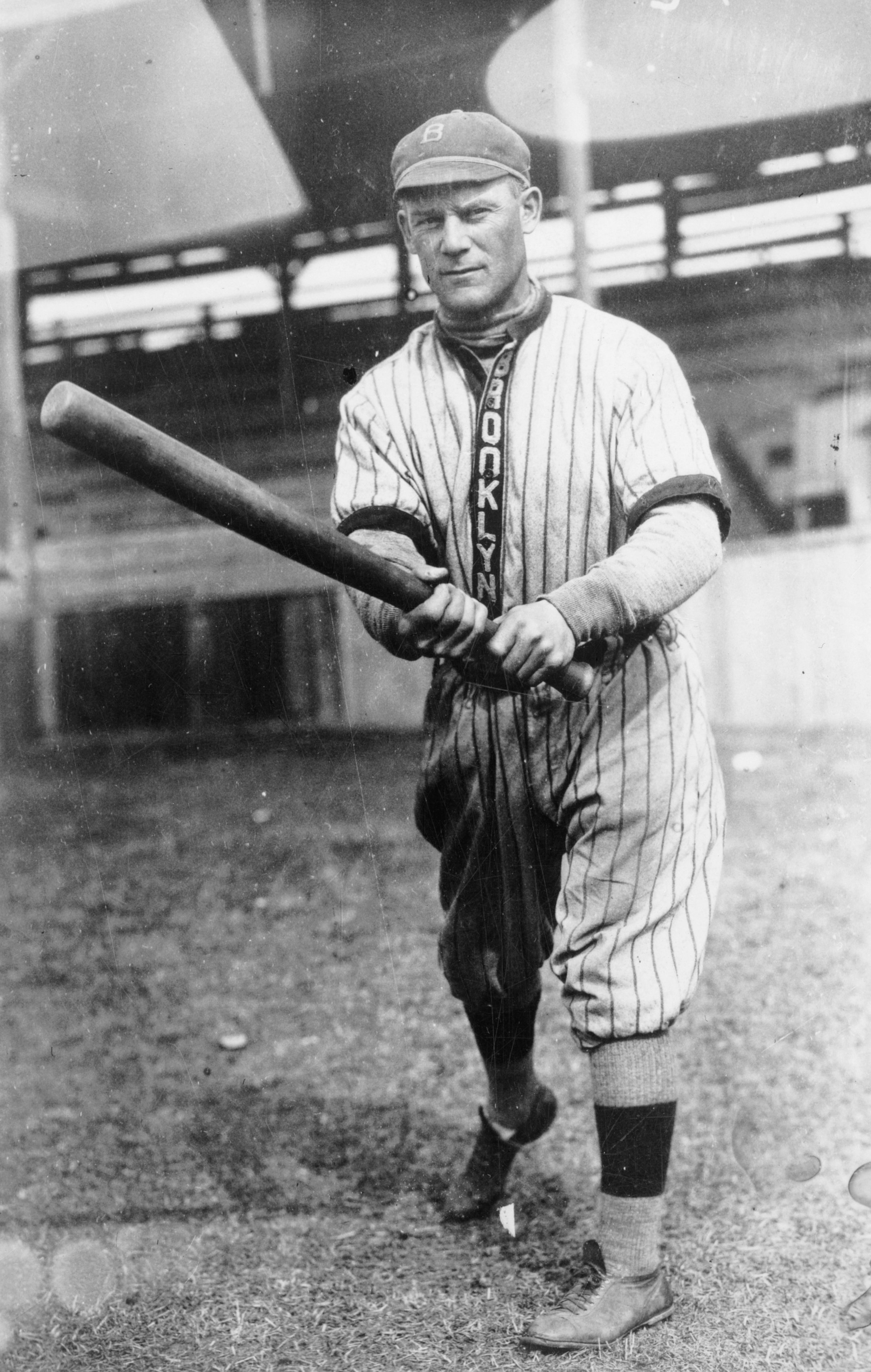 Title: Norman "Kid" Elberfeld, a player for the Brooklyn Dodgers, full-length portrait, swinging his bat Abstract/medium: 1 photographic print.